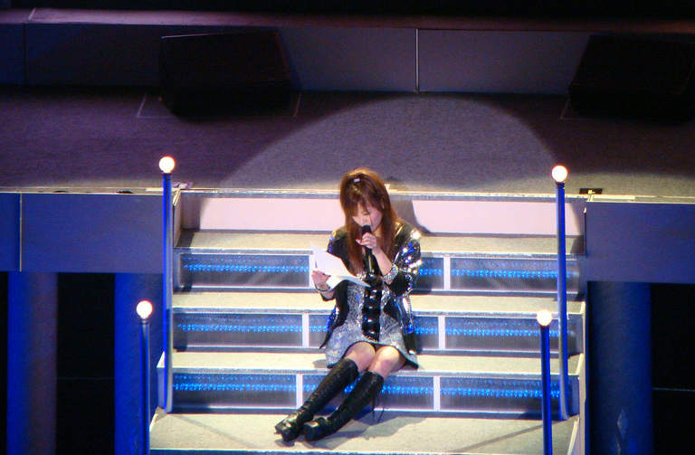 Risa Niigaki of Morning Musume during the group's Platinum 9 Tour 2009 at Nakano Sun Plaza, Tokyo